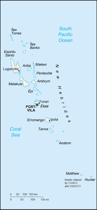 Map of Vanuatu, showing major islands and towns.